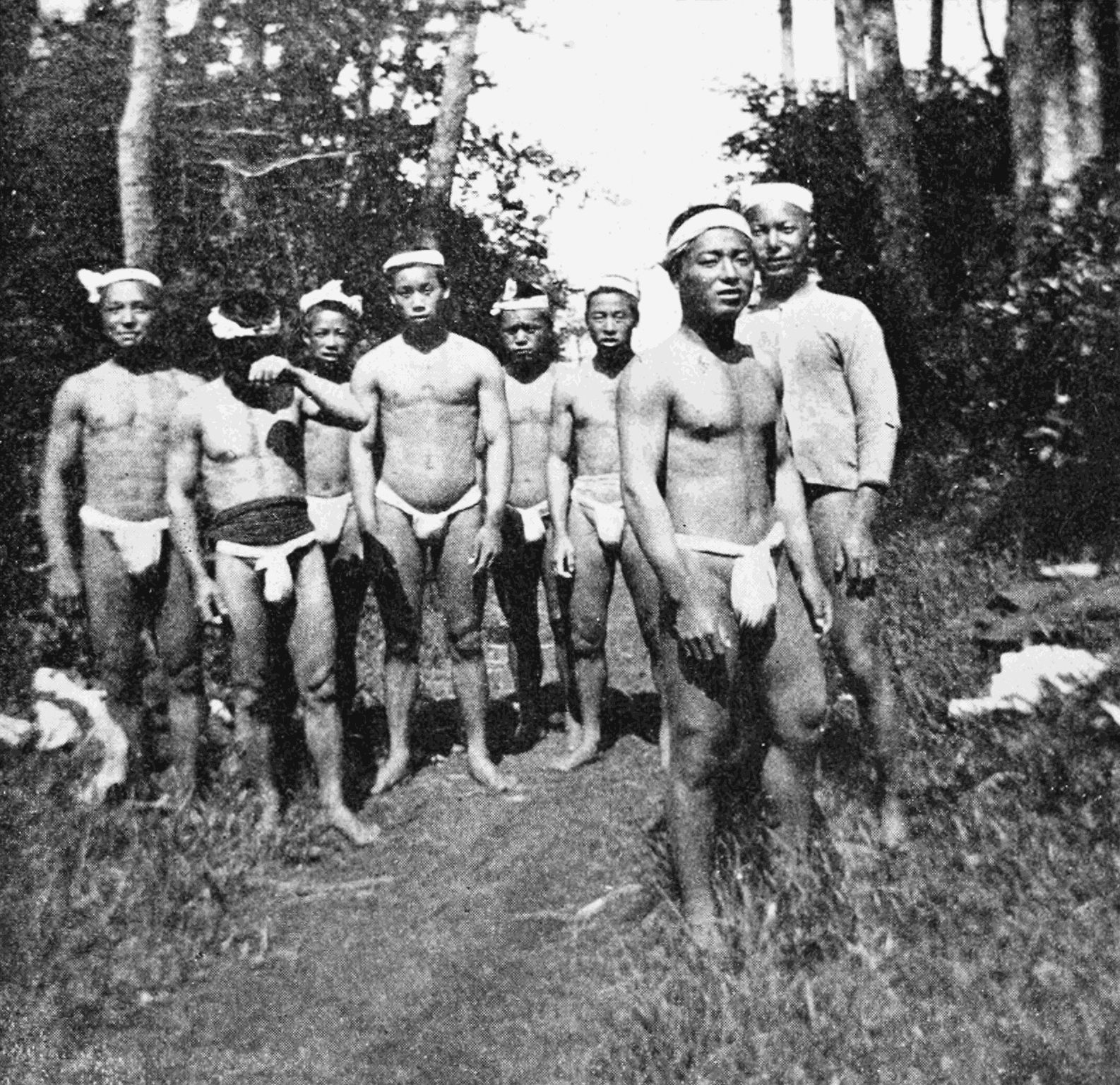 Fishermen of Misaki